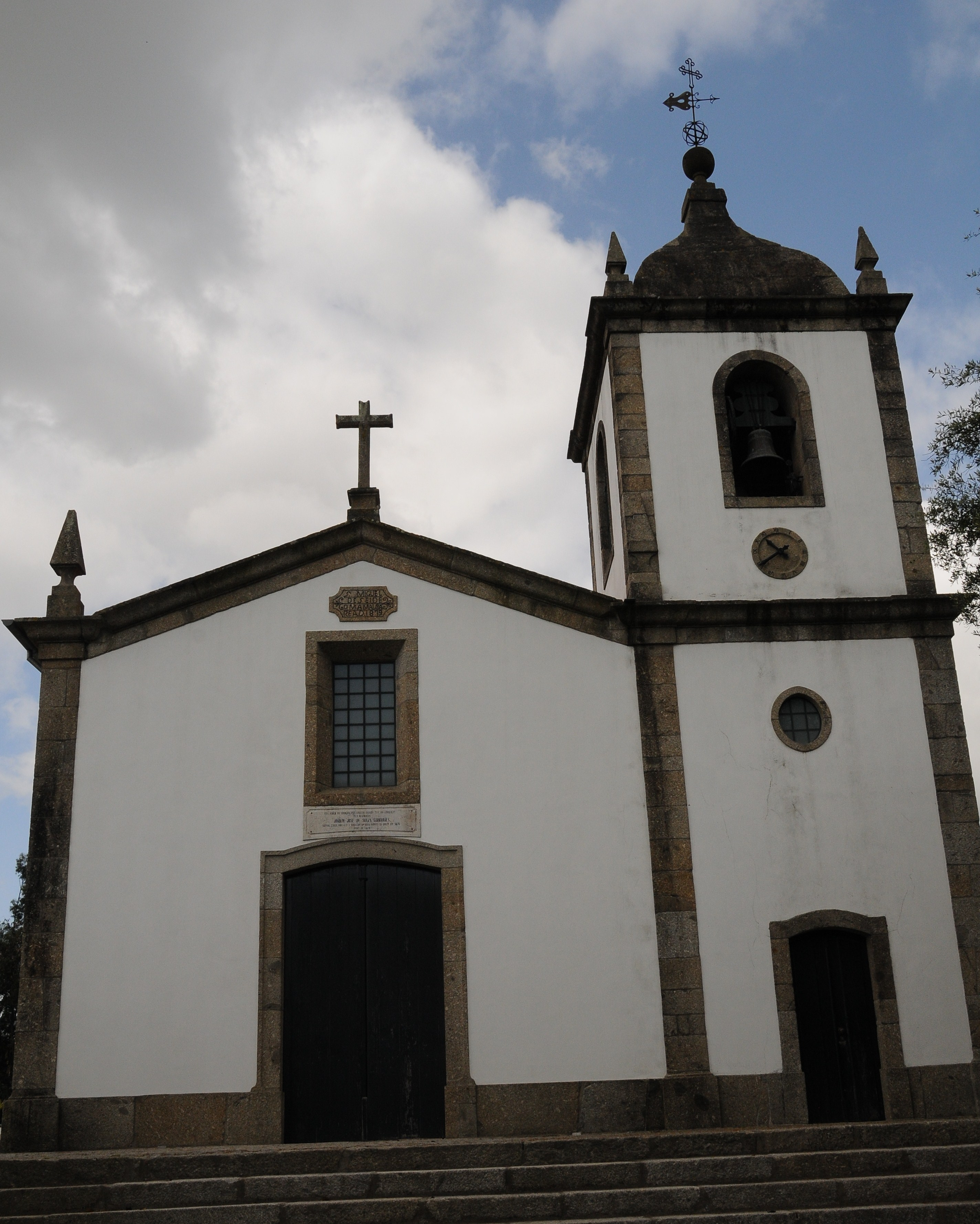 São Miguel de Seide Church, in Famalicão, Portugal.